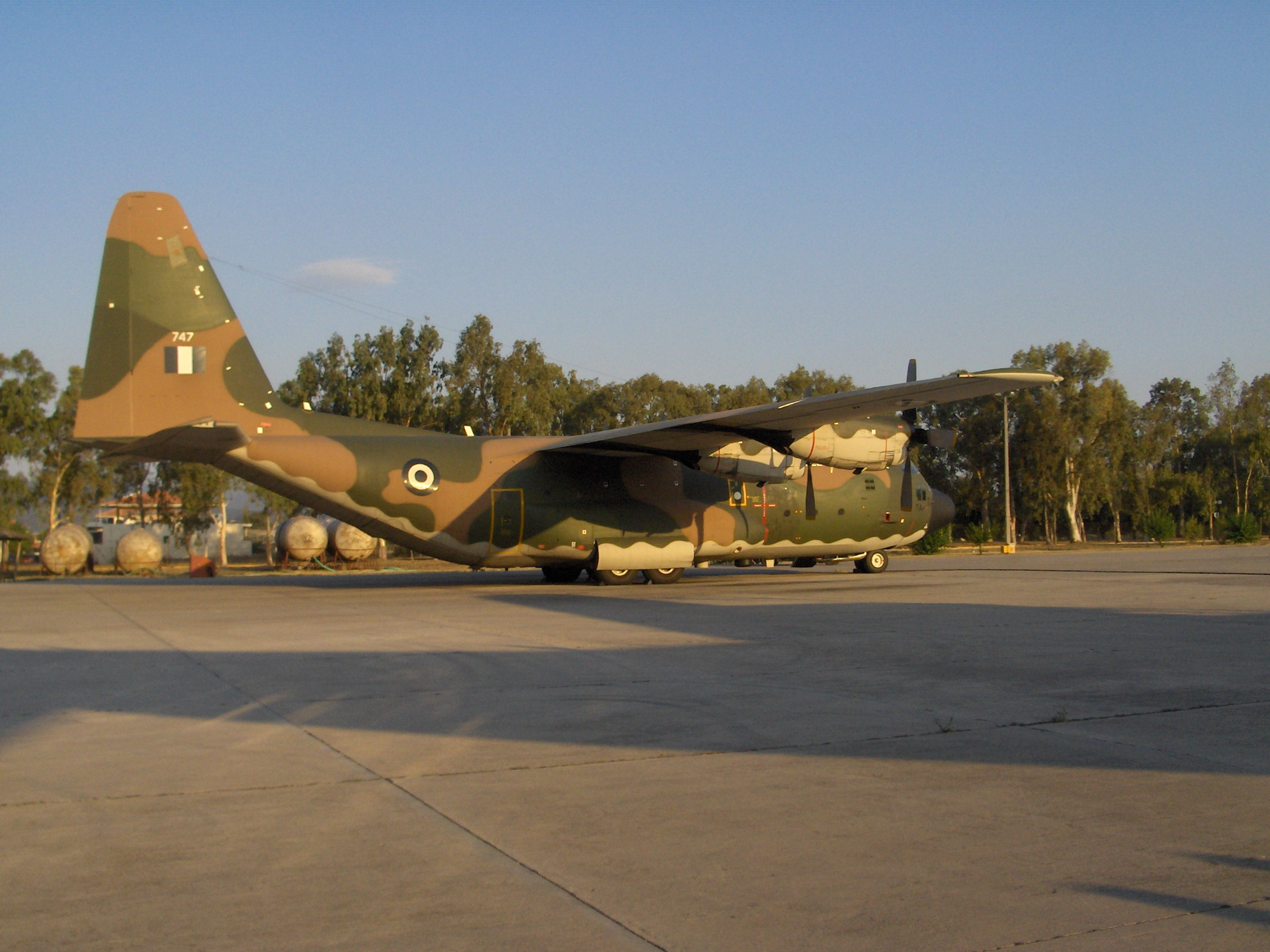 Lockheed C-130 Hercules of the Hellenic Air Force, stationed at Elefsina airport.